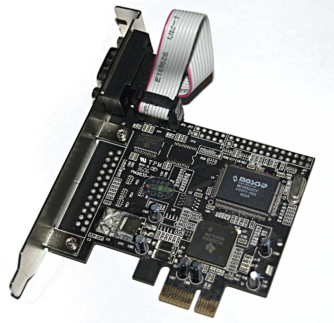 RS232 to PCI Express card, note the use of a PCI express to PCI bridge chip